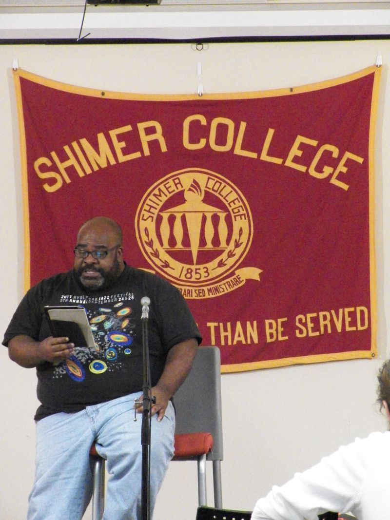 Alumnus Byron Keys reading from Black Boy by Richard Wright, at a Banned Books Week reading at Shimer College in Chicago.